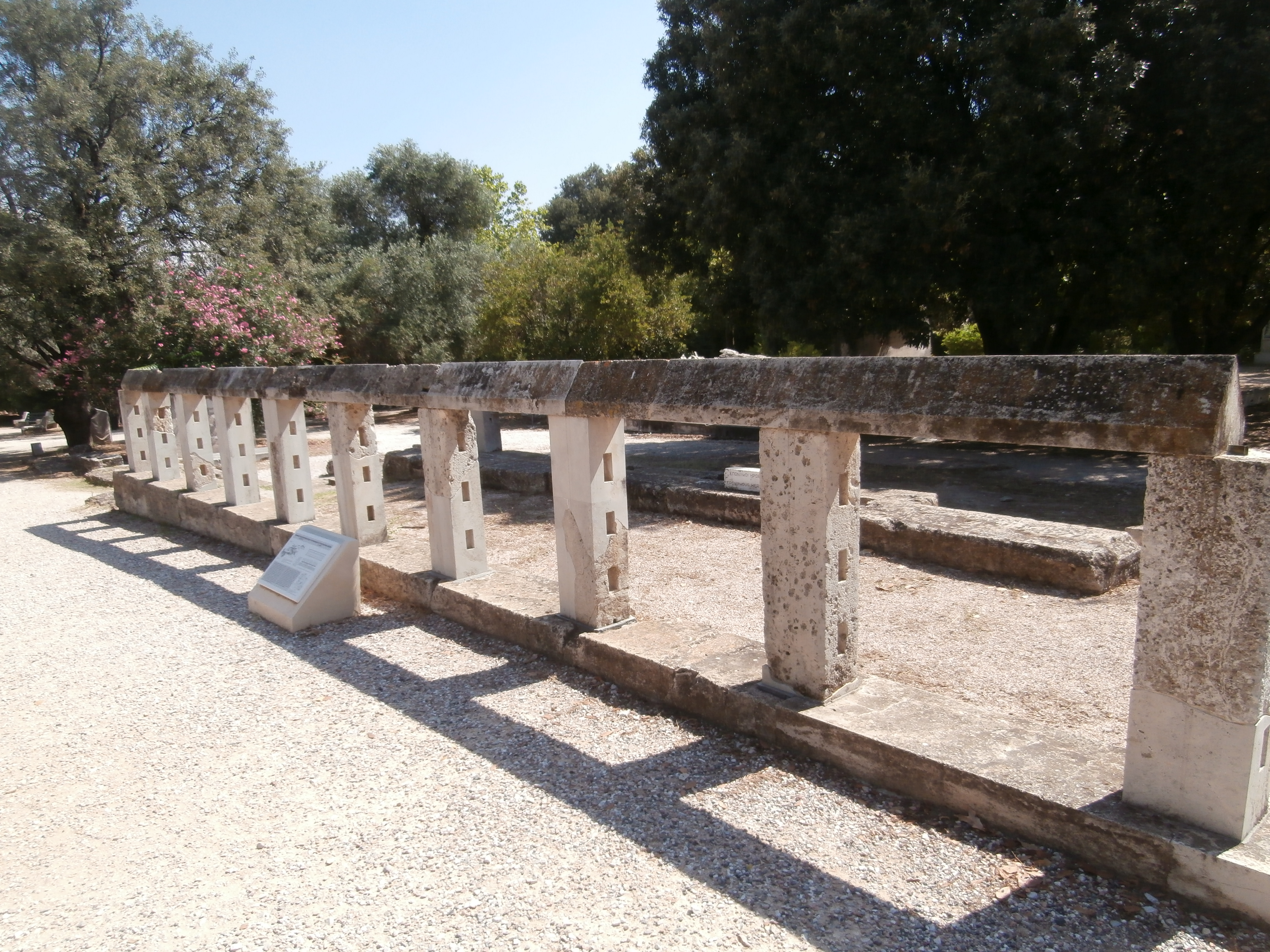 Monument of the Eponymous Heroes